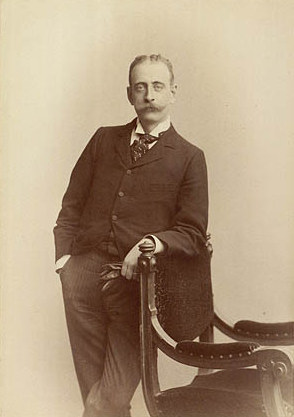 Carl Oscar Herman Leopoldus Løvenskiold (1864-1936), Danish Baron, diplomat, and estate owner